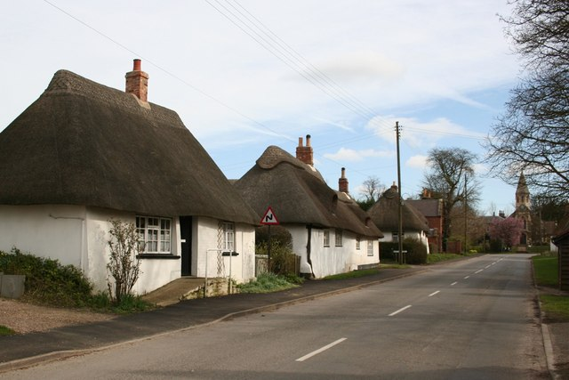 Thimbleby